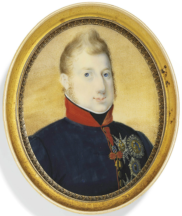 Portrait of Leopold of Bourbon-Two Sicilies, Prince of Salerno (1790-1851)